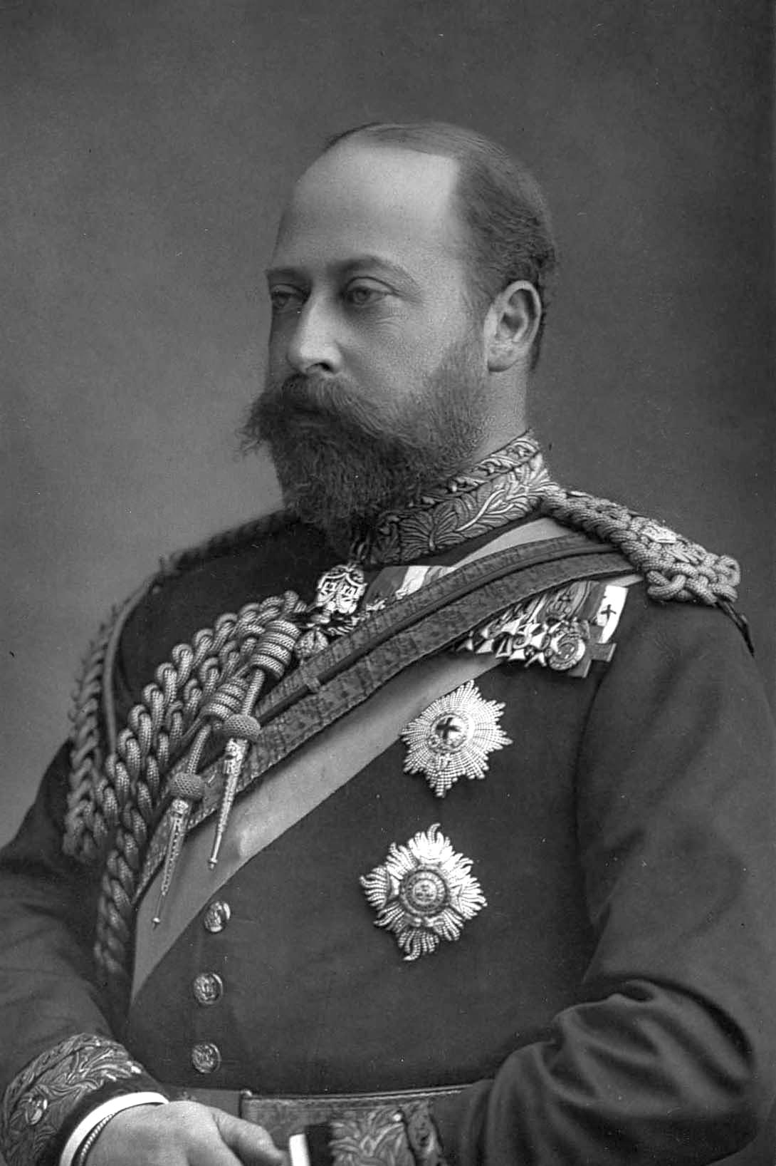 The Prince of Wales (later King Edward VII)(1841-1910)